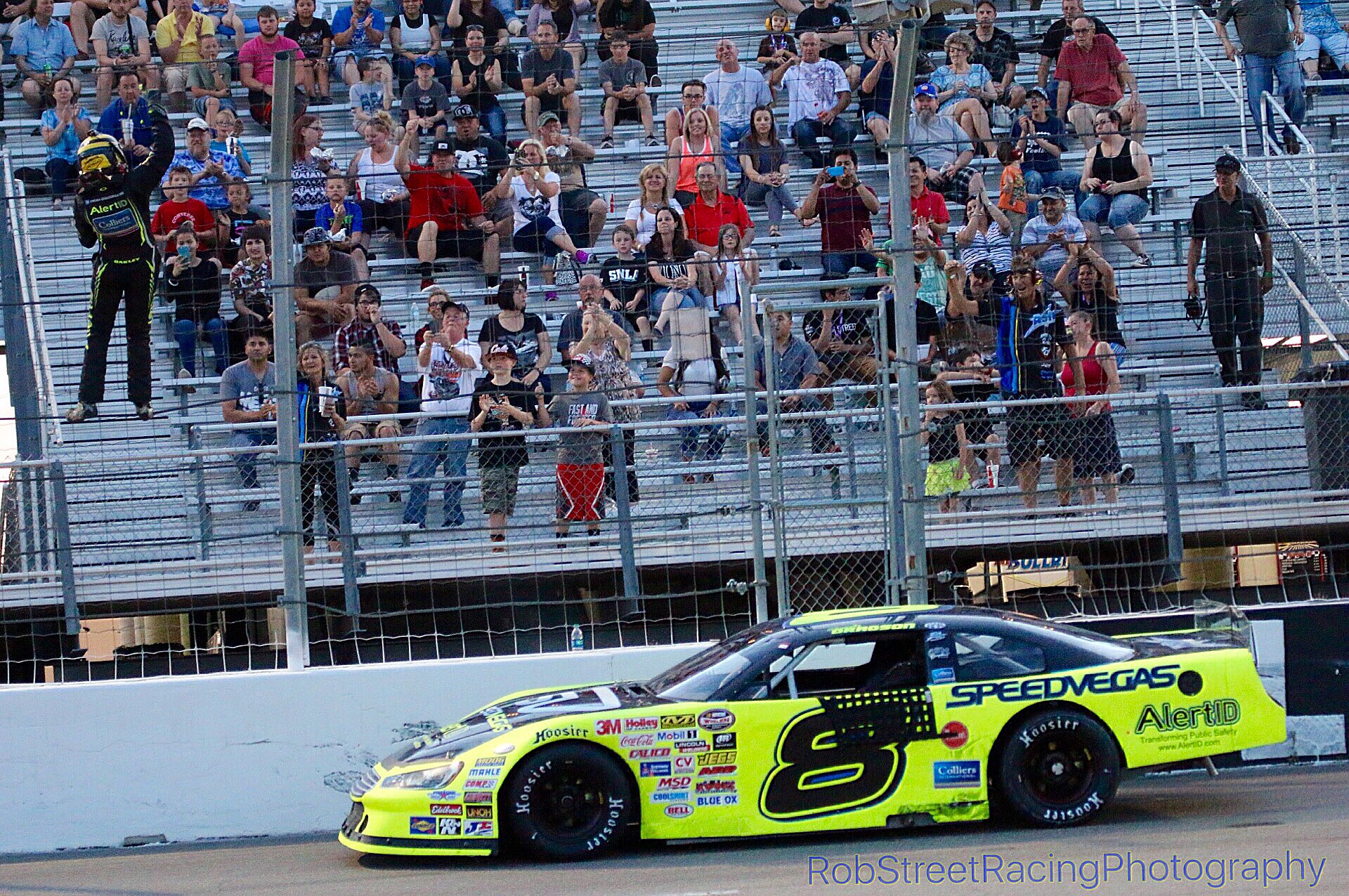 Noah Gragson climbs the fence...'The Bullring' at Las Vegas Motor Speedway